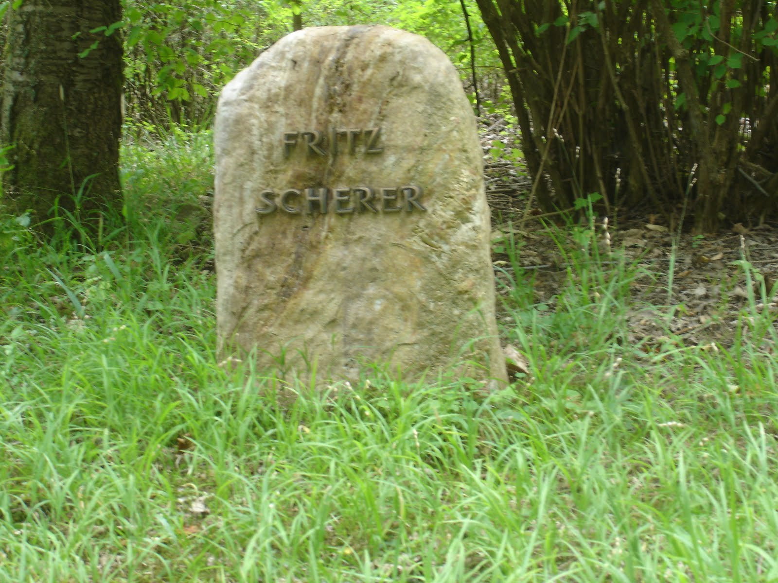 memorial for Fritz Scherer at the Bakuninhütte (Bakunin hut) (near Meiningen)